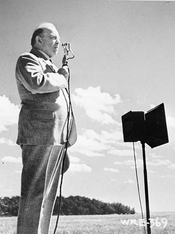 Rt. Hon. W.L. Mackenzie King addressing Canadian soldiers in Shilo, Manitoba.